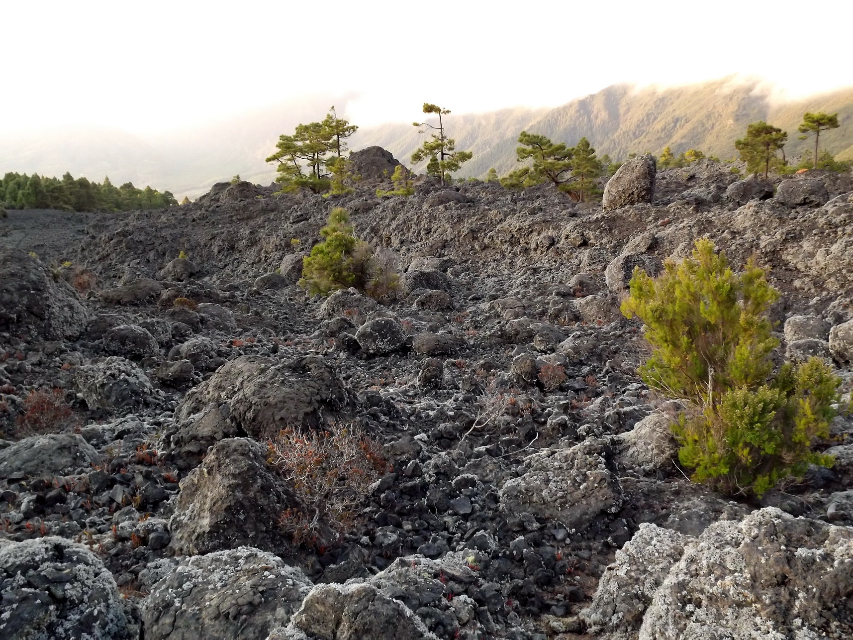 Llano del Jable, La Palma, Spain